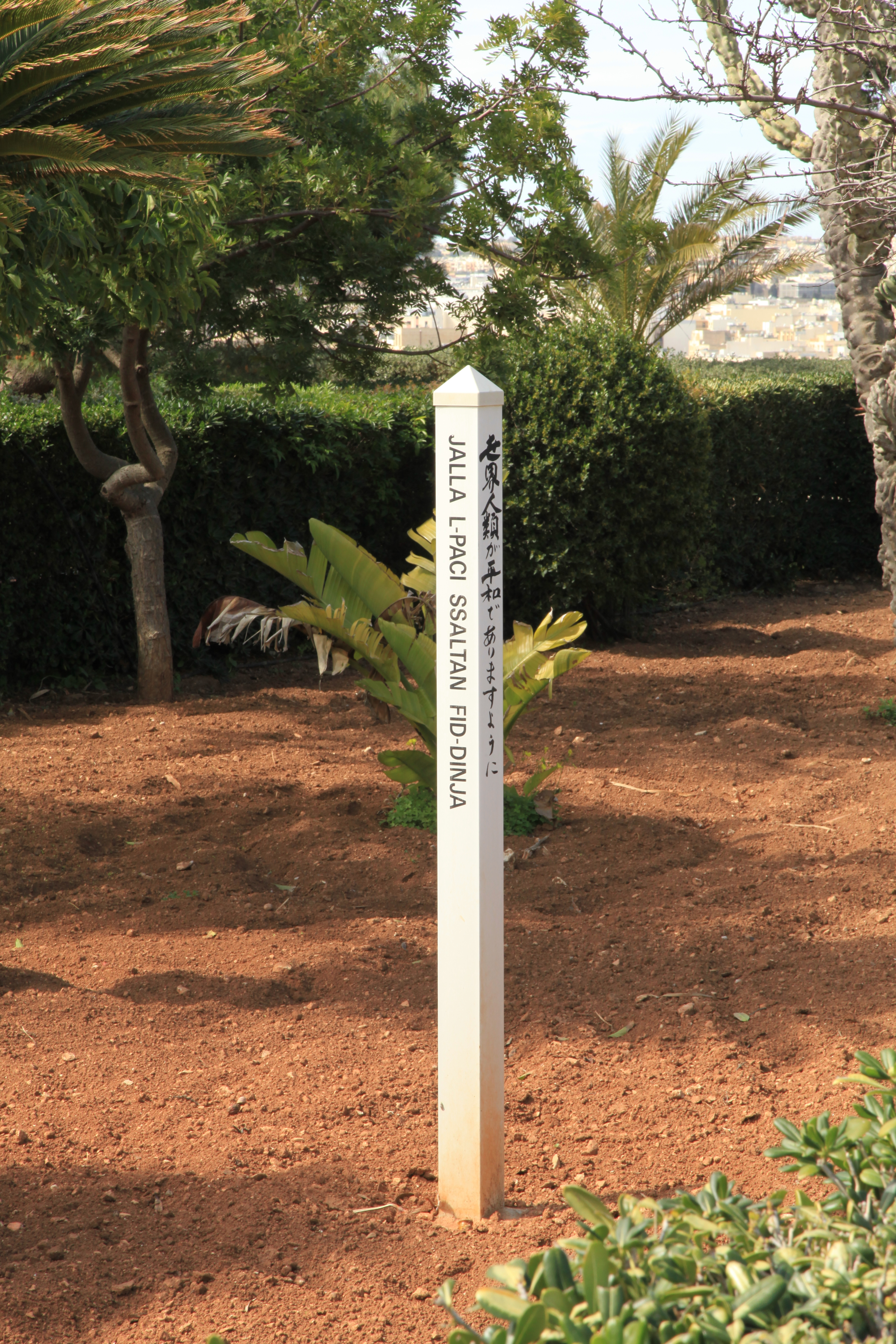 Argotti Botanic Gardens at Triq Vincenzo Bugeja in Floriana, Malta